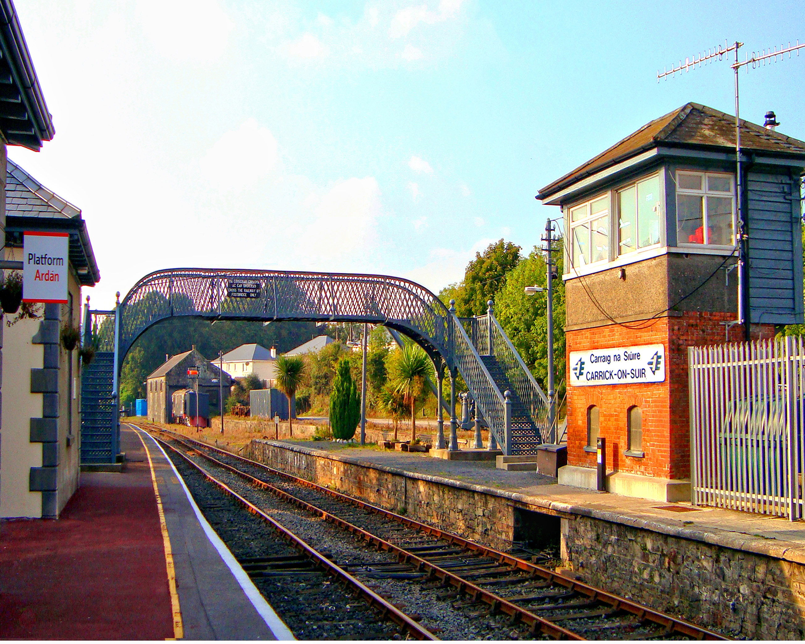 Carrick on Suir railway station The railway station at Carrick-on-Suir in County Tipperary was opened in 1853. Its on the cross country line between Rosslare and Limerick. The Victorian footbridge, signalbox and waiting room are all well preserved and in daily use. The line is still currently controlled by semaphore signals